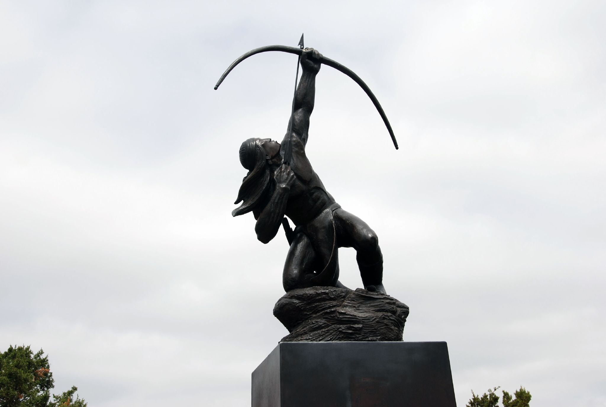 Sculpture from the Allan Houser Scuplture GardenSculptures from the Allan Houser Sculpture Garden (12)